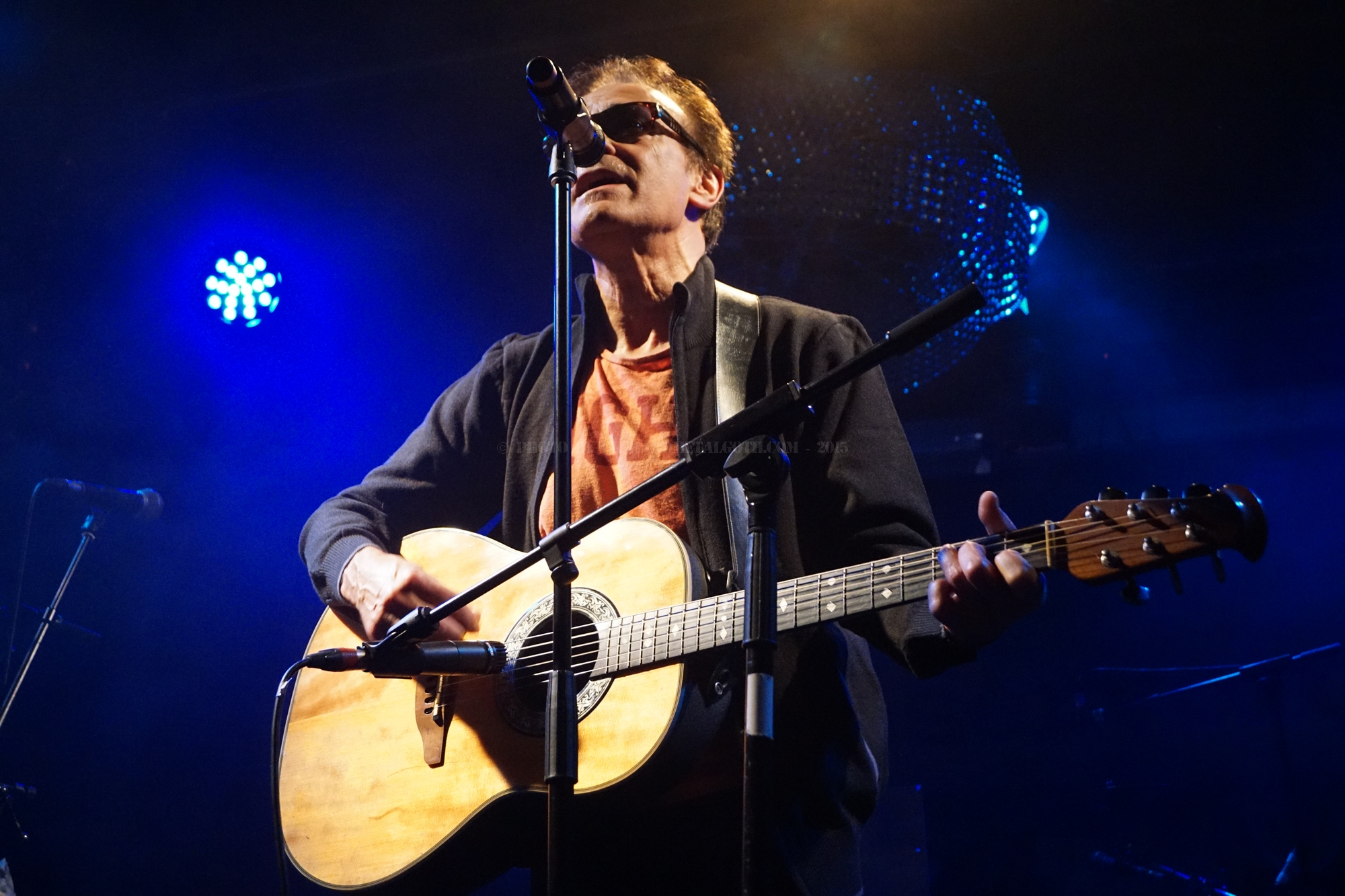 French pop singer F.R. David at "Le Réservoir", in Paris, France.